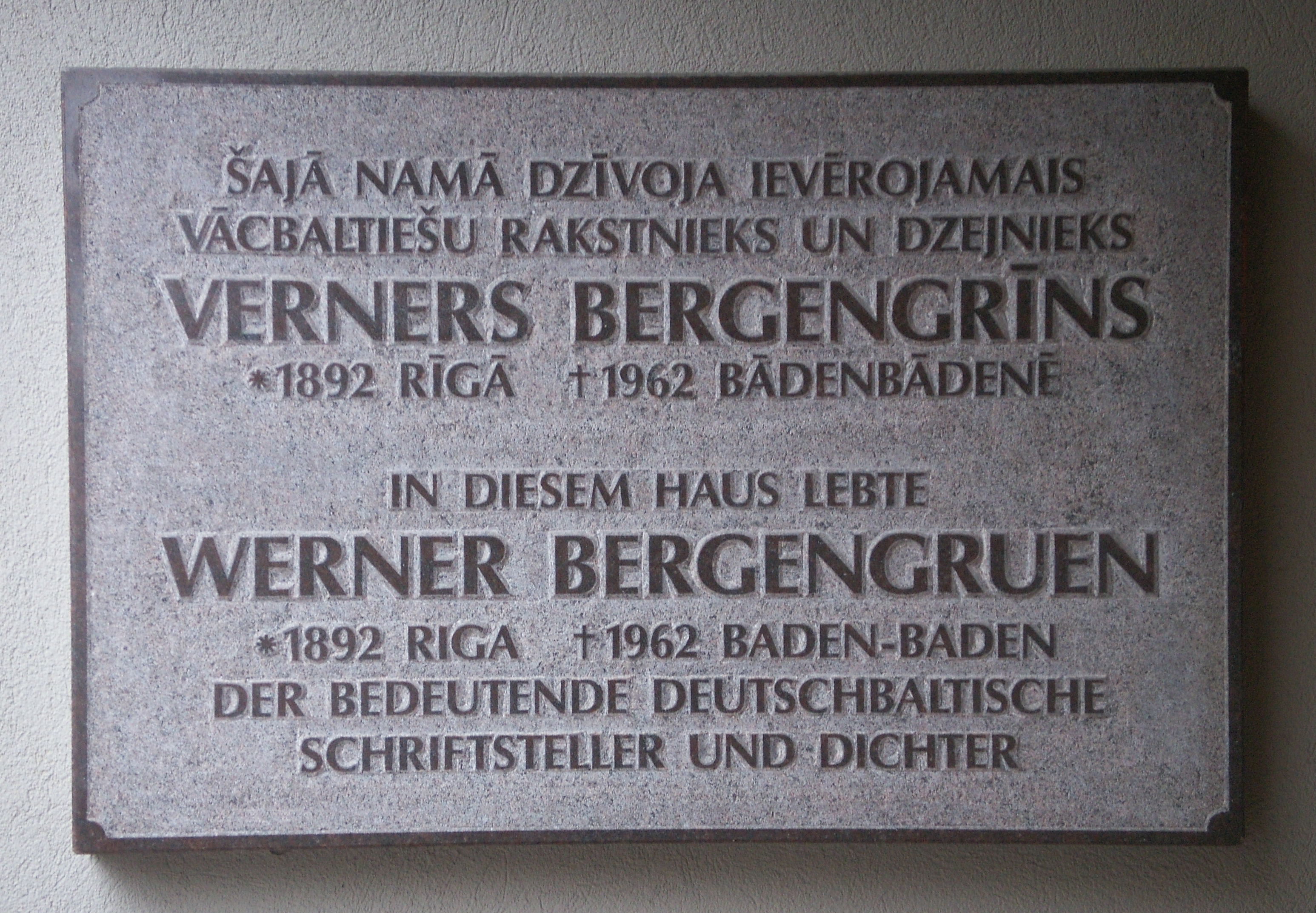 Plate in memory of Werner Bergengruen in the street Smilšu iela, Riga. He lived here with his parents. His birthplace in the street Kalķu iela has been destroyed.